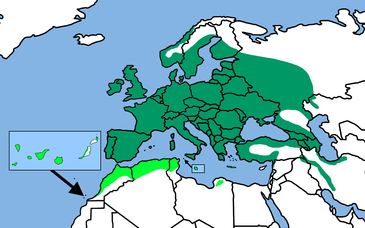 Distribution of Eurasian Blue Tit Cyanistes caeruleus (darker green) and African Blue Tit Cyanistes teneriffae (lighter green)